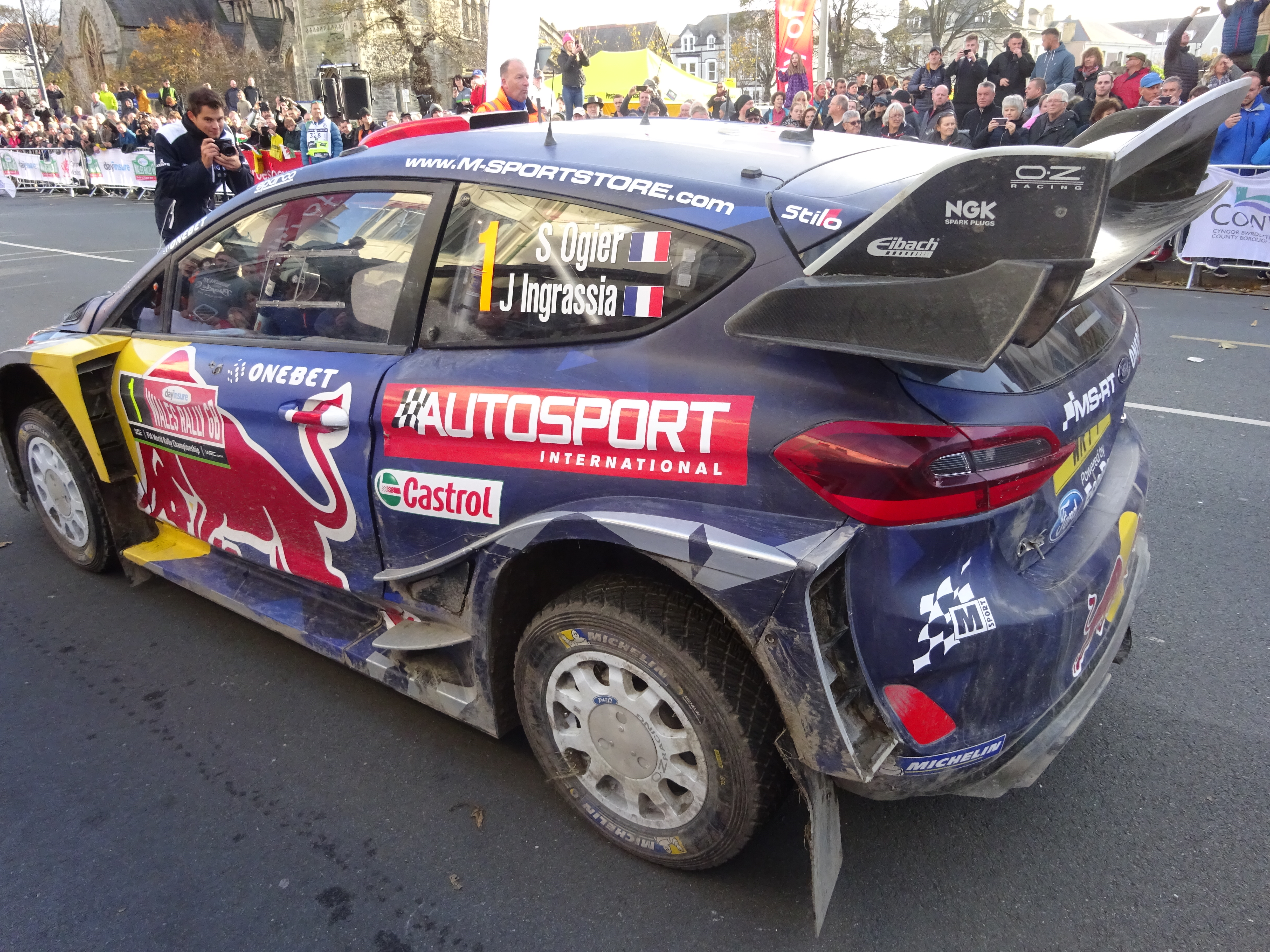 Wales Rally penultimate round of the World Rally Championship, Llandudno 2012.